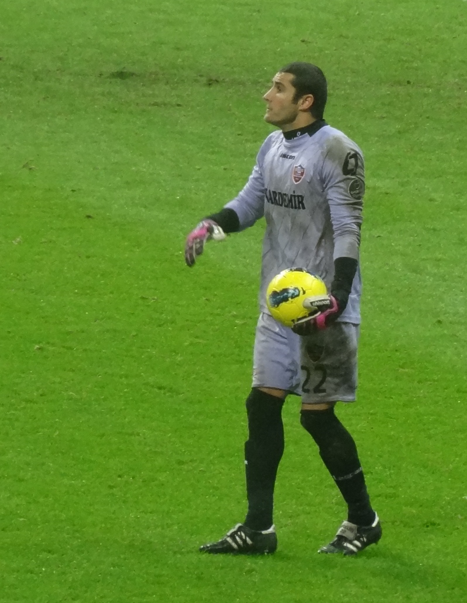 orkun usak playin against gs